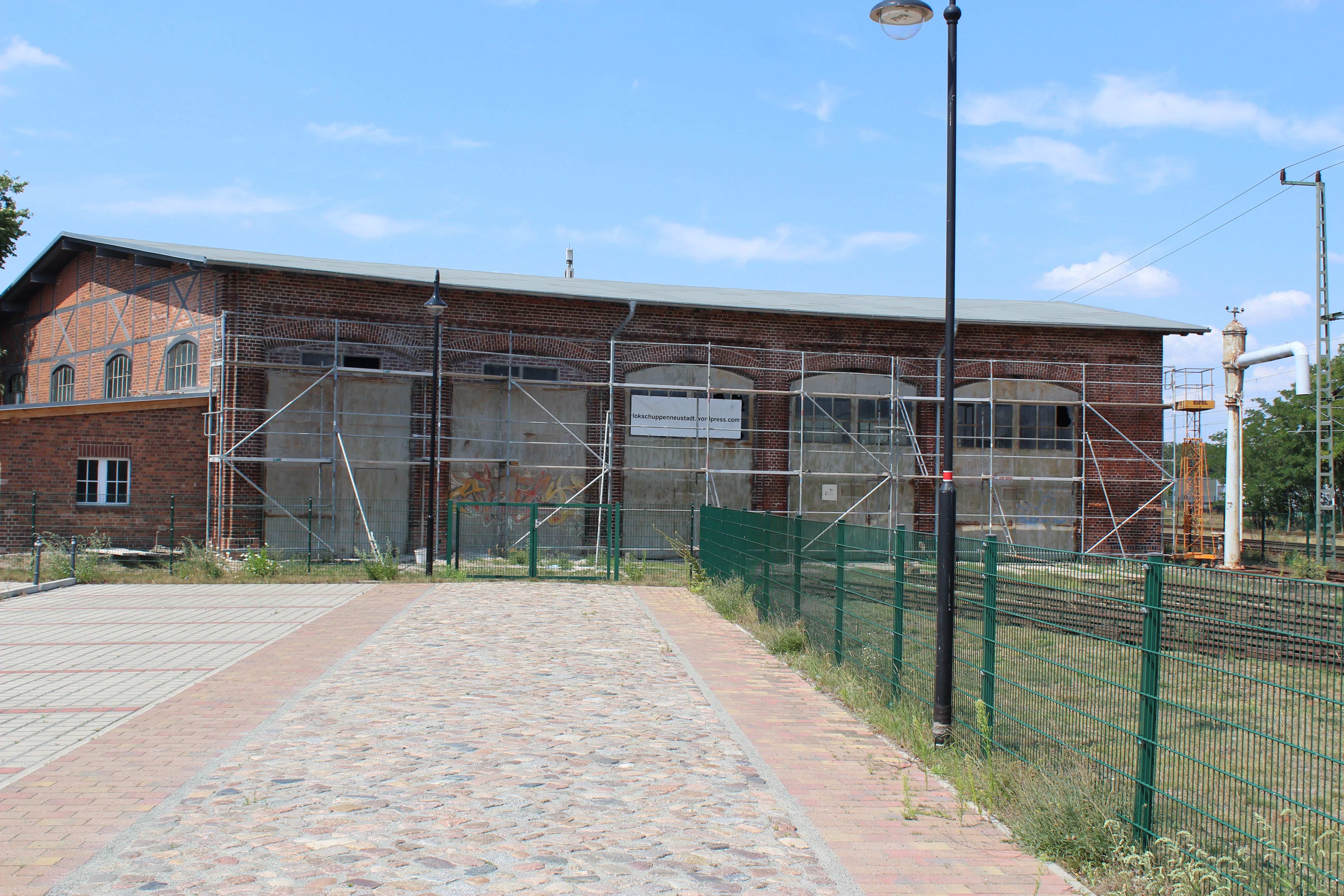 train station Neustadt (Dosse), goods shed